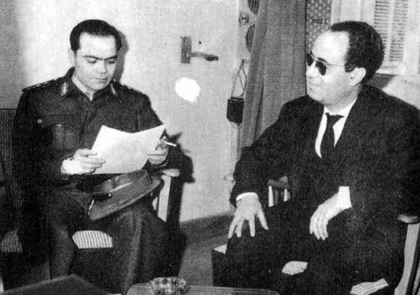 General Lu’ayy al-Atasi, the commander of the Revolutionary Command Council (RCC) during the early Baathist era (March-July 1963) with Dr Jamal al-Atasi, the Minister of Information in the cabinet of Prime Minister Salah al-Din al-Bitar.